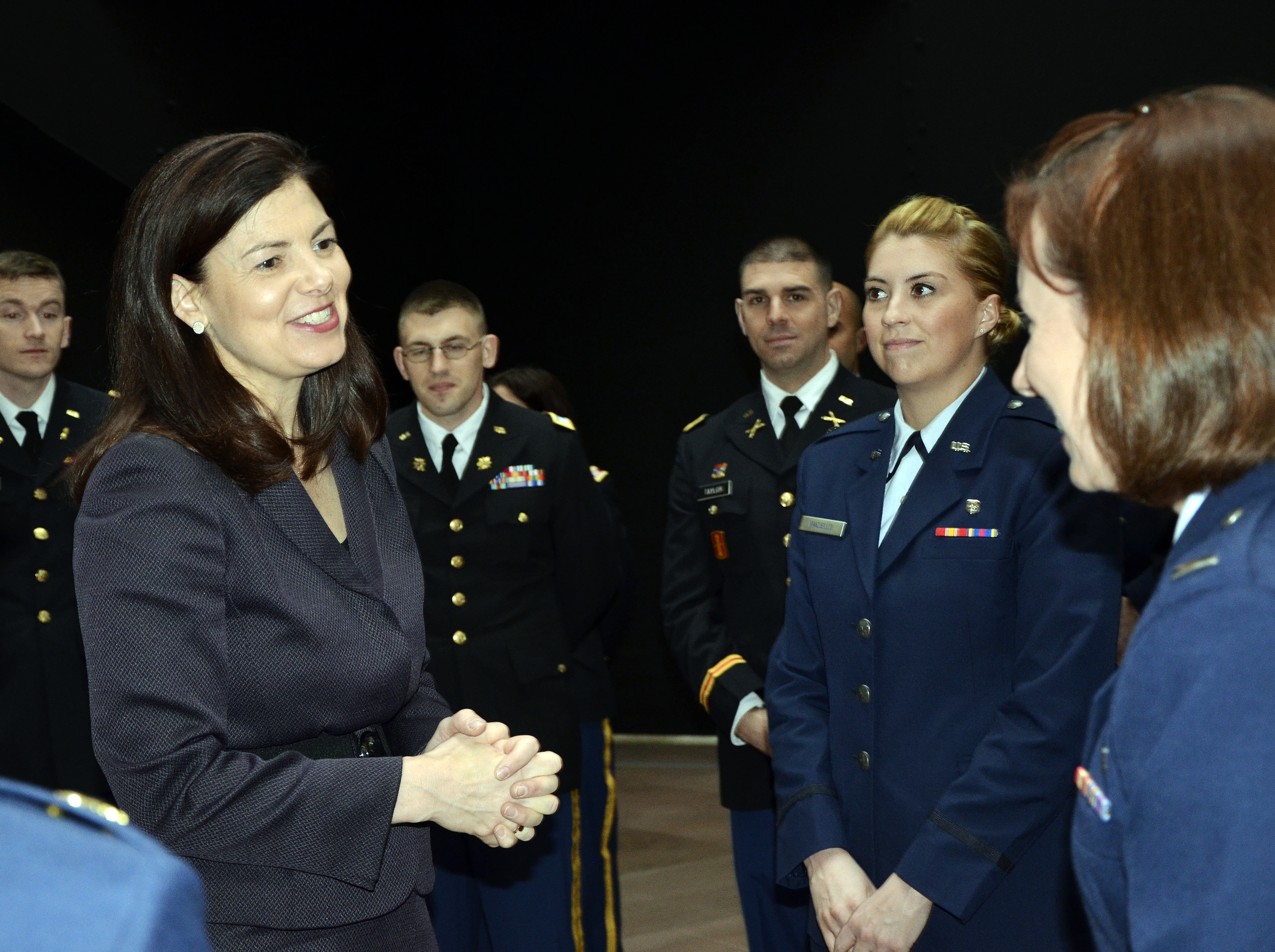 WASHINGTON -- U.S. Senator Kelly Ayotte (left) spoke with Company Grade Officers with the New Hampshire National Guard on April 30 in the Hart Senate Building in Washington, D.C. The visit was part of a two-day CGO Professional Development Tour. (U.S. Air Force Photo by 2nd Lt. Brooks Payette/Released)